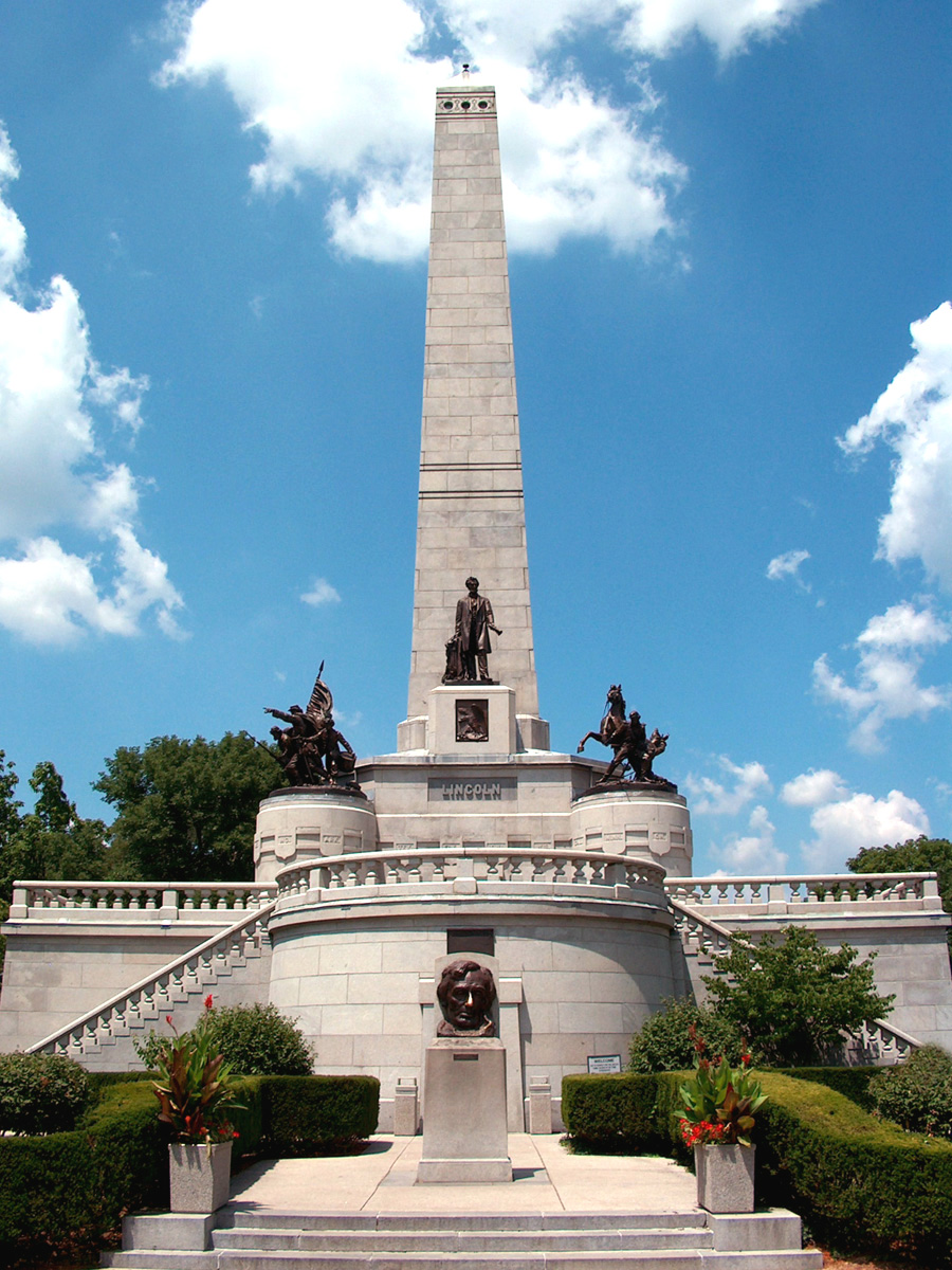 President Abraham Lincoln's Tomb, Oak Ridge Cemetery, Springfield, Illinois, USA